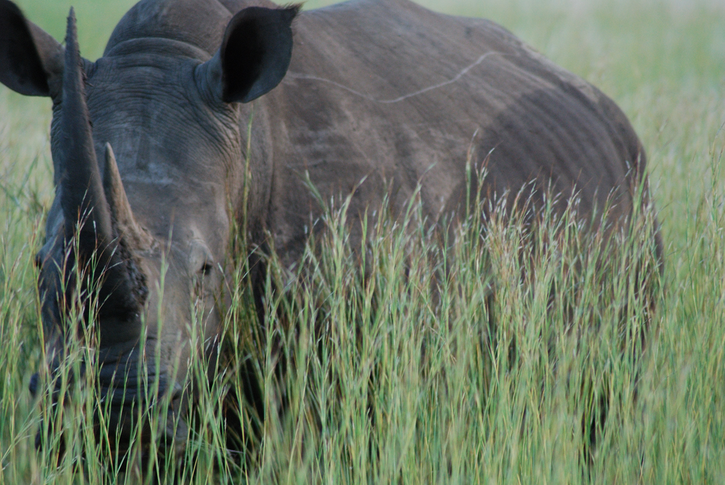 rhino in the waterburg